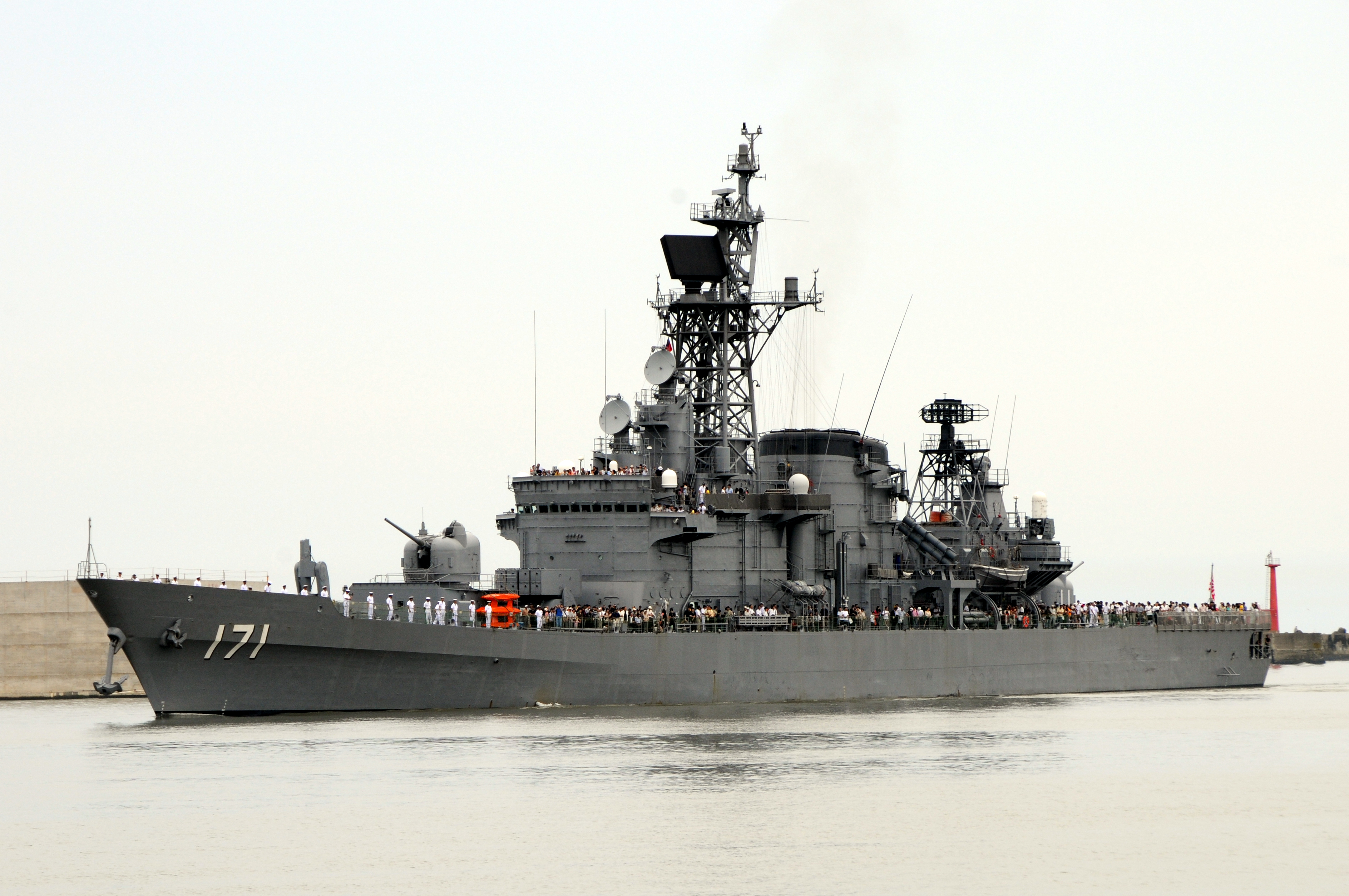 JDS Hatakaze at Akita.